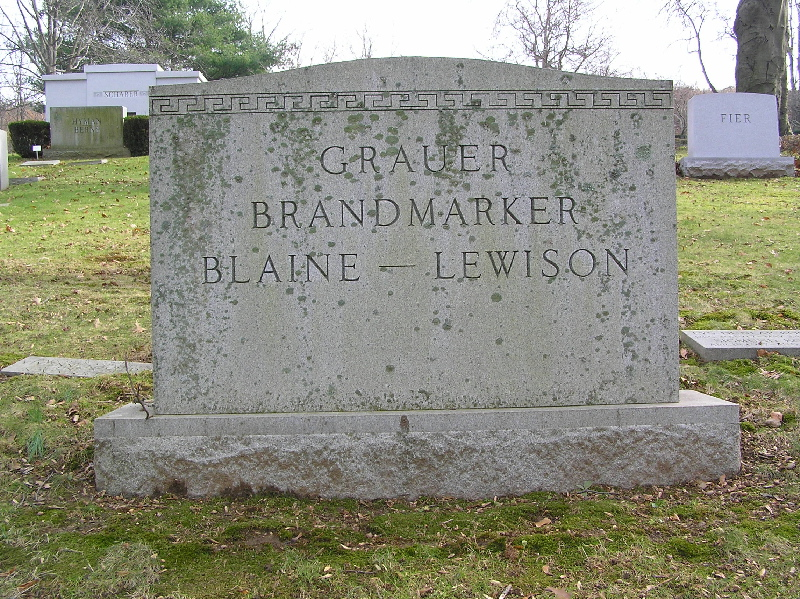 I took this photograph of the grave of Ben Grauer in Westchester Hills Cemetery on November 27, 2006. — GNU Free Documentation License